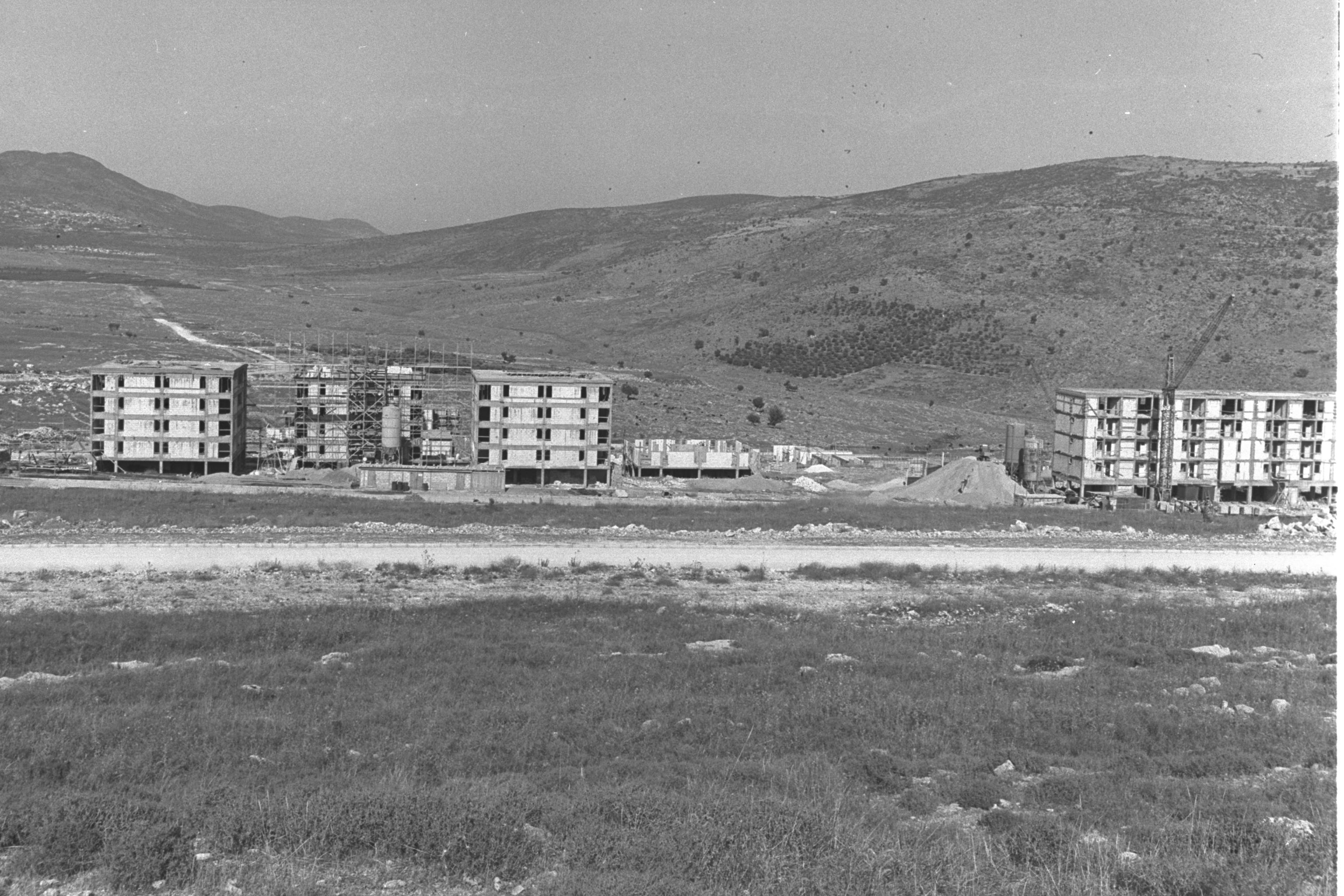 THE FIRST HOUSING UNITS OF THE NEW TOWN CARMIEL IN WESTERN GALILEE UNDER CONSTRUCTION.